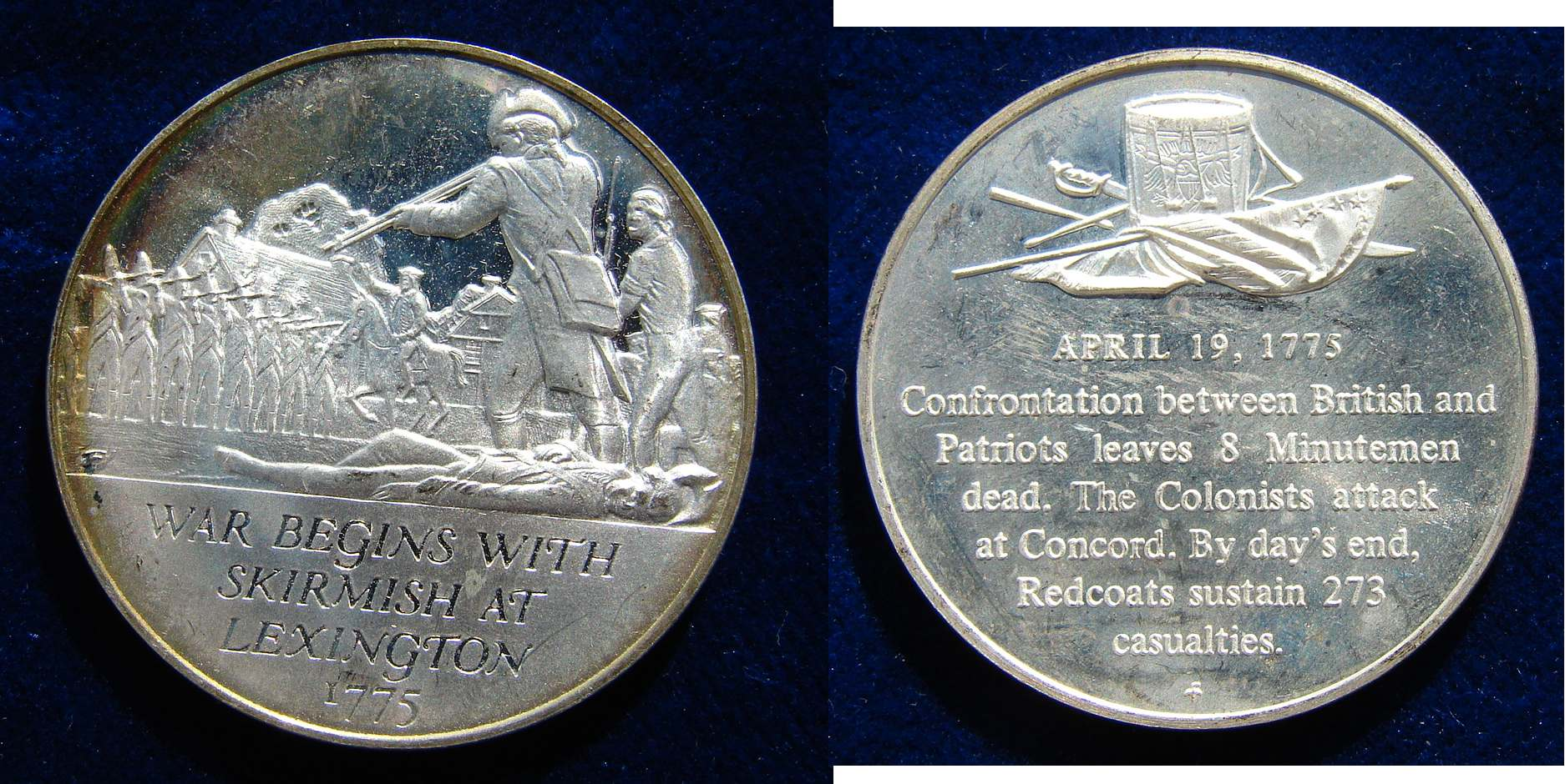 14.66 g Sterling Silver. D = 32 mm Beginning of the American Revolutionary War at Lexington and Concord. 2 Patriot Colonials aiming at British troops discharging their rifles. 4 lines below: "WAR BEGINS WITH SKIRMISH AT LEXINGTON 1775"/ 7 lines below military symbols: "APRIL 19, 1775 Confrontation between British and Patriots leaves 8 Minutemen dead. The Colonists attack at Concord. By day's end, Redcoats sustain 273 casualties." Franklin Mint edition 1970. Condition: UNCIRCULATED MS60+, without any hidden problems like edge nicks etc